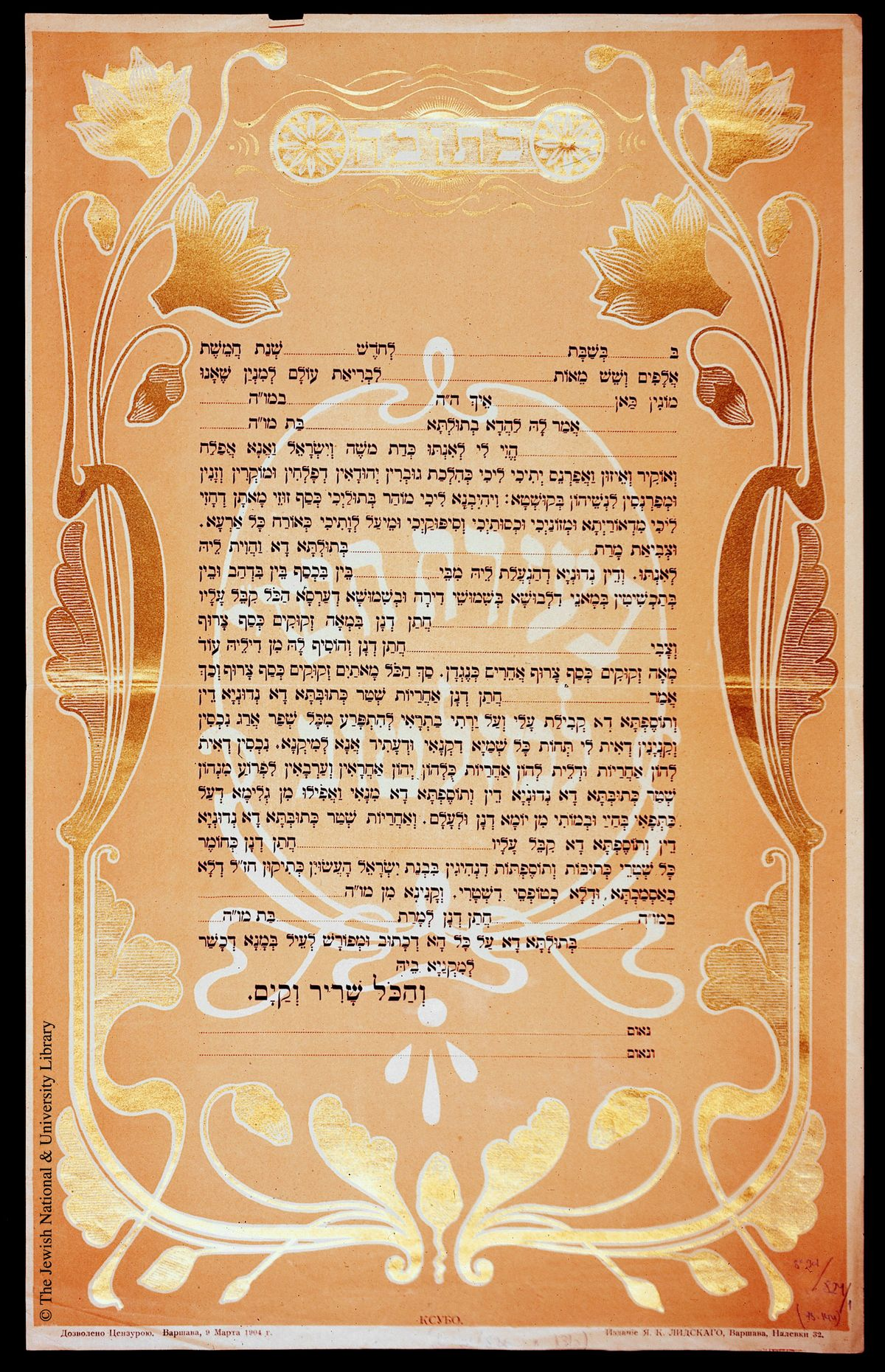 Ketubah from The Ketubot Collection of the National Library of Israel